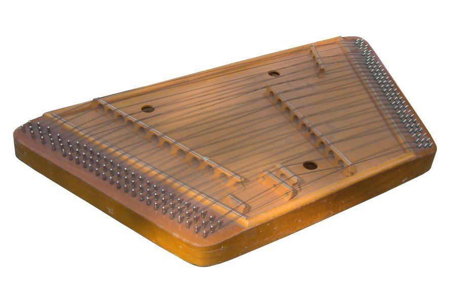 folk cimbalom, Hungarian hammered dulcimer